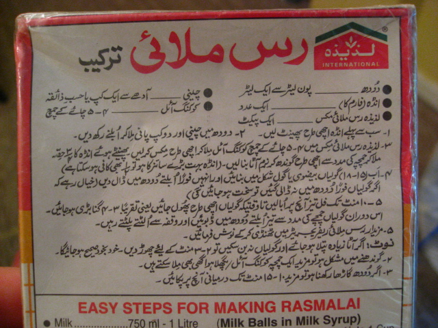 Urdu script on box containing mix for Ras Malai - A sweet dish made from milk. (text re-edited by Hindustanilanguage (talk) 08:50, 13 October 2011 (UTC))